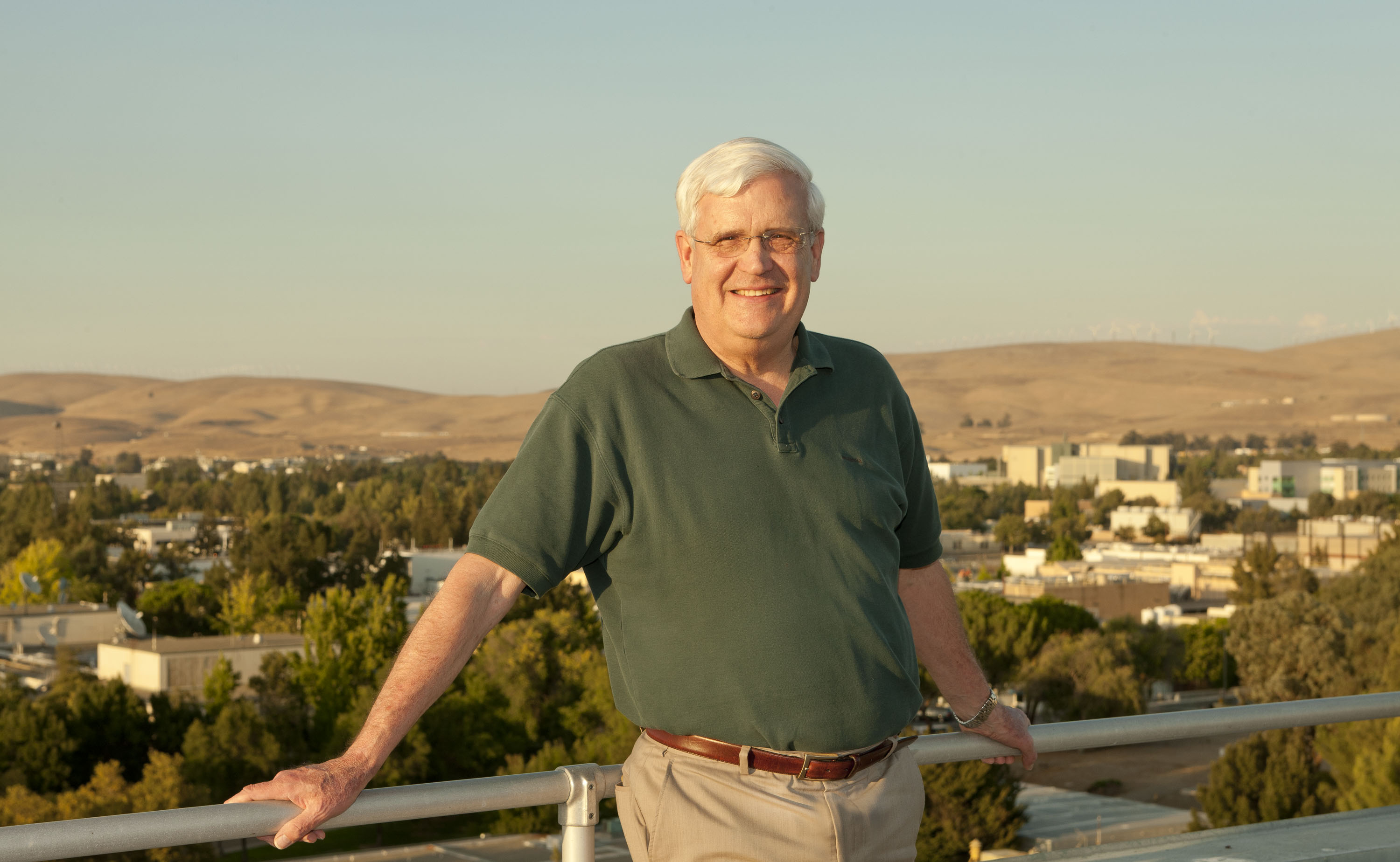 George Miller, who served as director of Lawrence Livermore National Laboratory from 2006 to 2011.